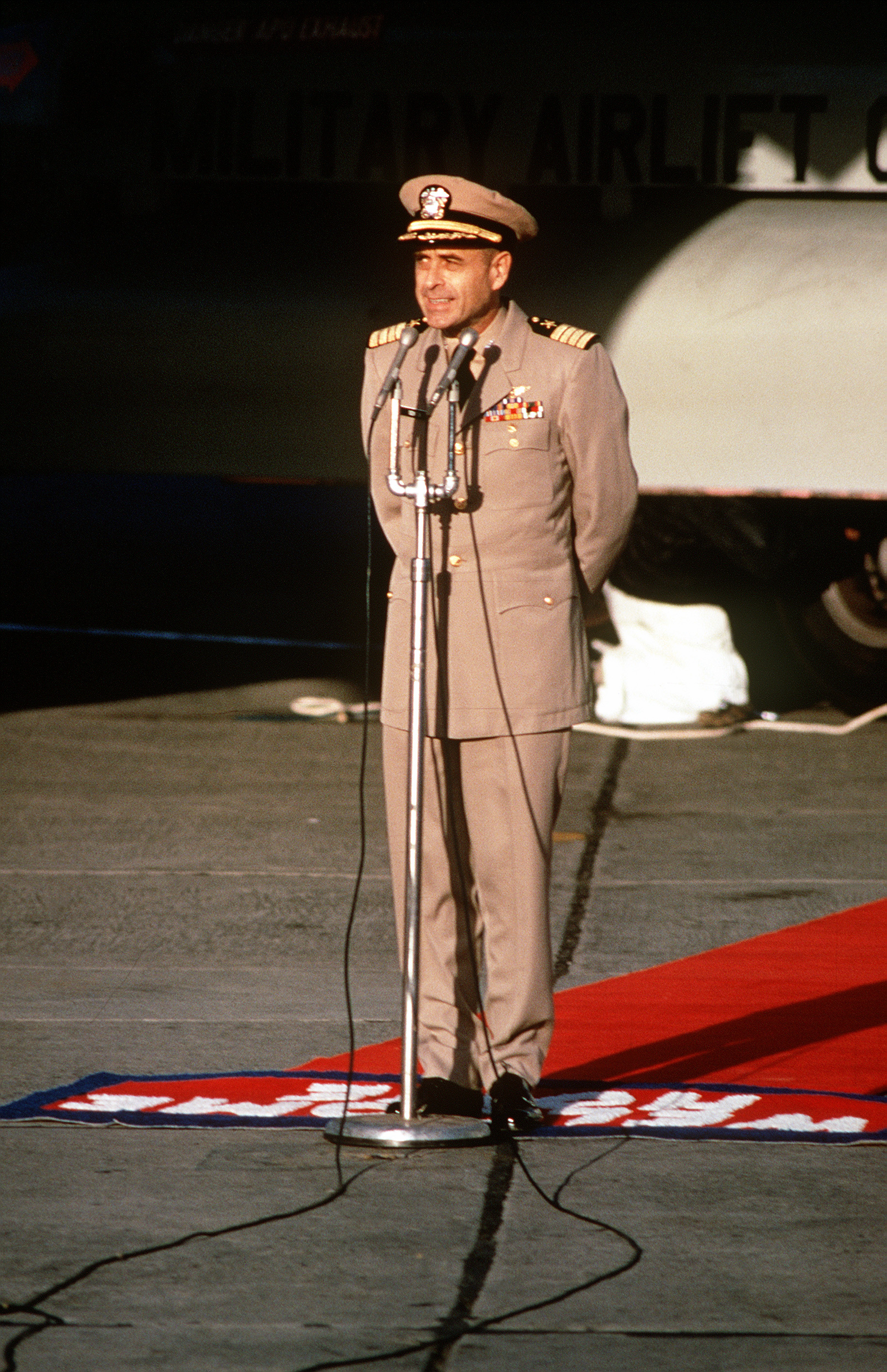 U.S. Navy Captain Jeremiah Andrew Denton speaking to a crowd at his welcome home ceremony.